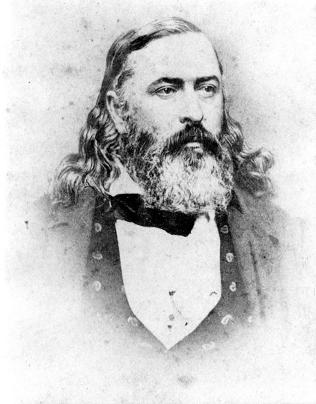 Albert Pike of Little Rock (Pulaski County), a military leader and lawyer who played a major role in Arkansas politics prior to the Civil War. He was also a national leader in Freemasonry; circa 1865. From the Paul Dolle Civil War Collection, courtesy of the Butler Center for Arkansas Studies, Central Arkansas Library System